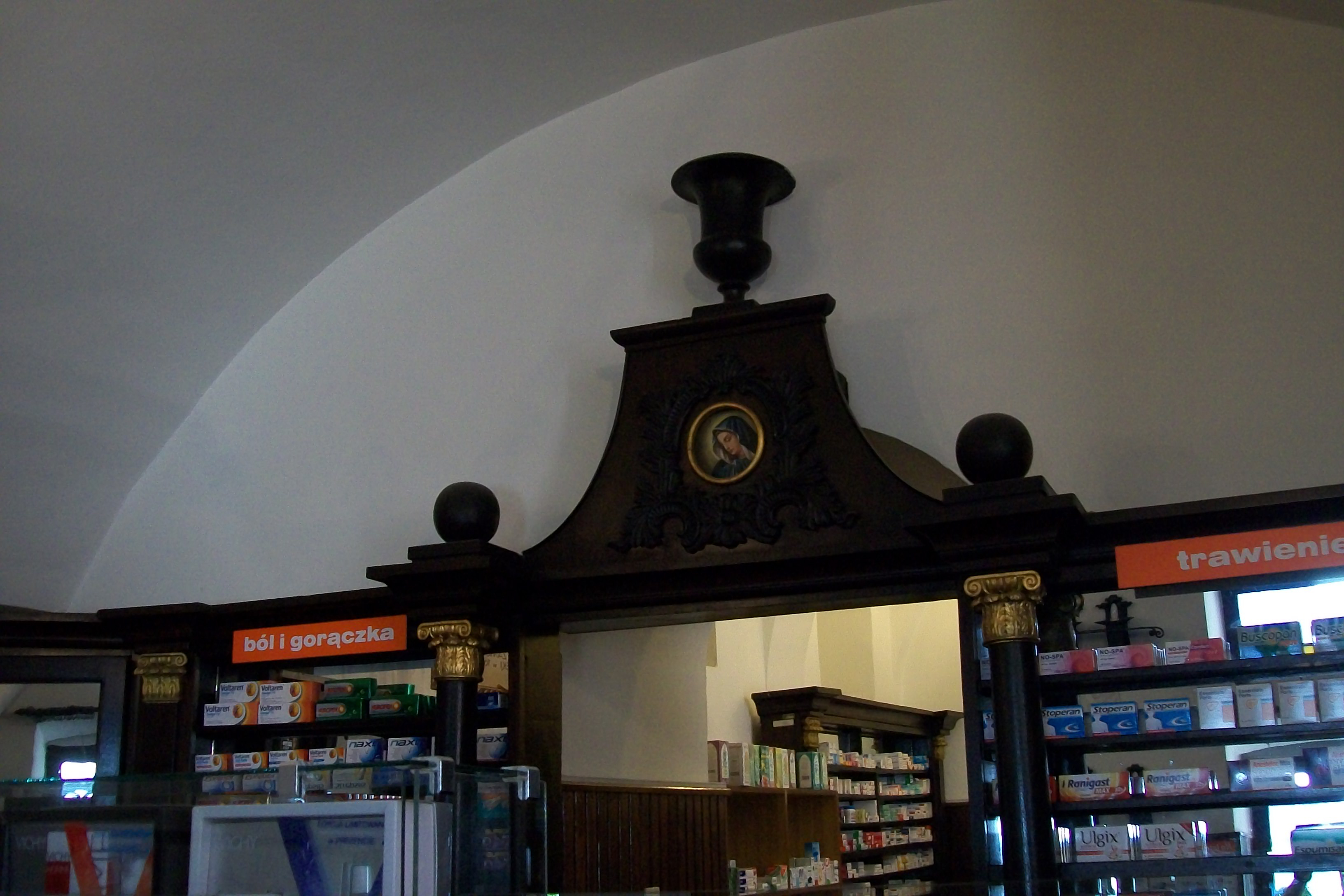 Pharmacy "Rektorska" in Zamość